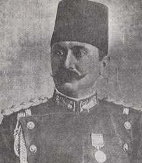 Abdullah Pasha (1846-1937)